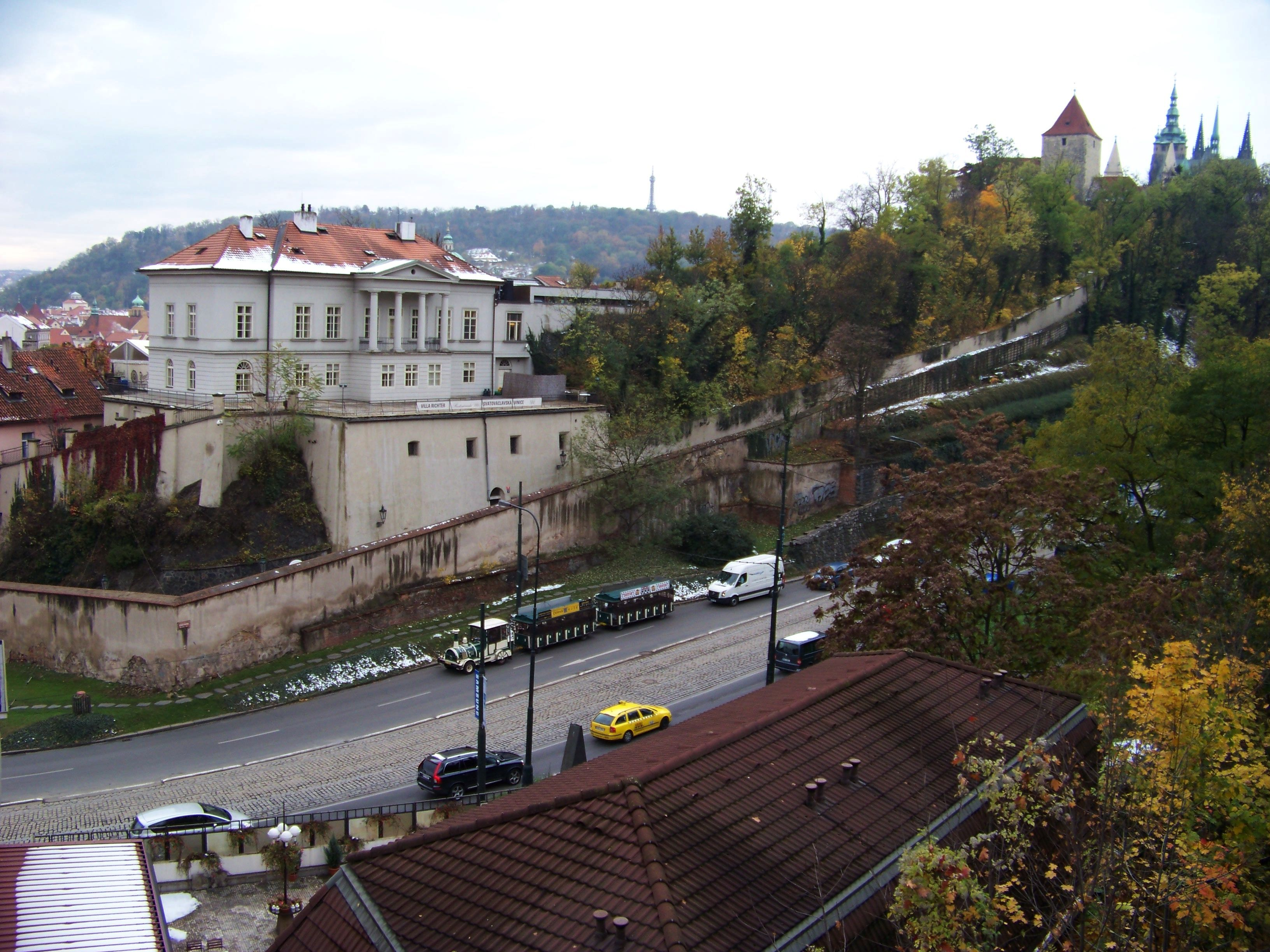 Prague-Malá Strana, the Czech Republic. Chotkova street, Villa Richter.